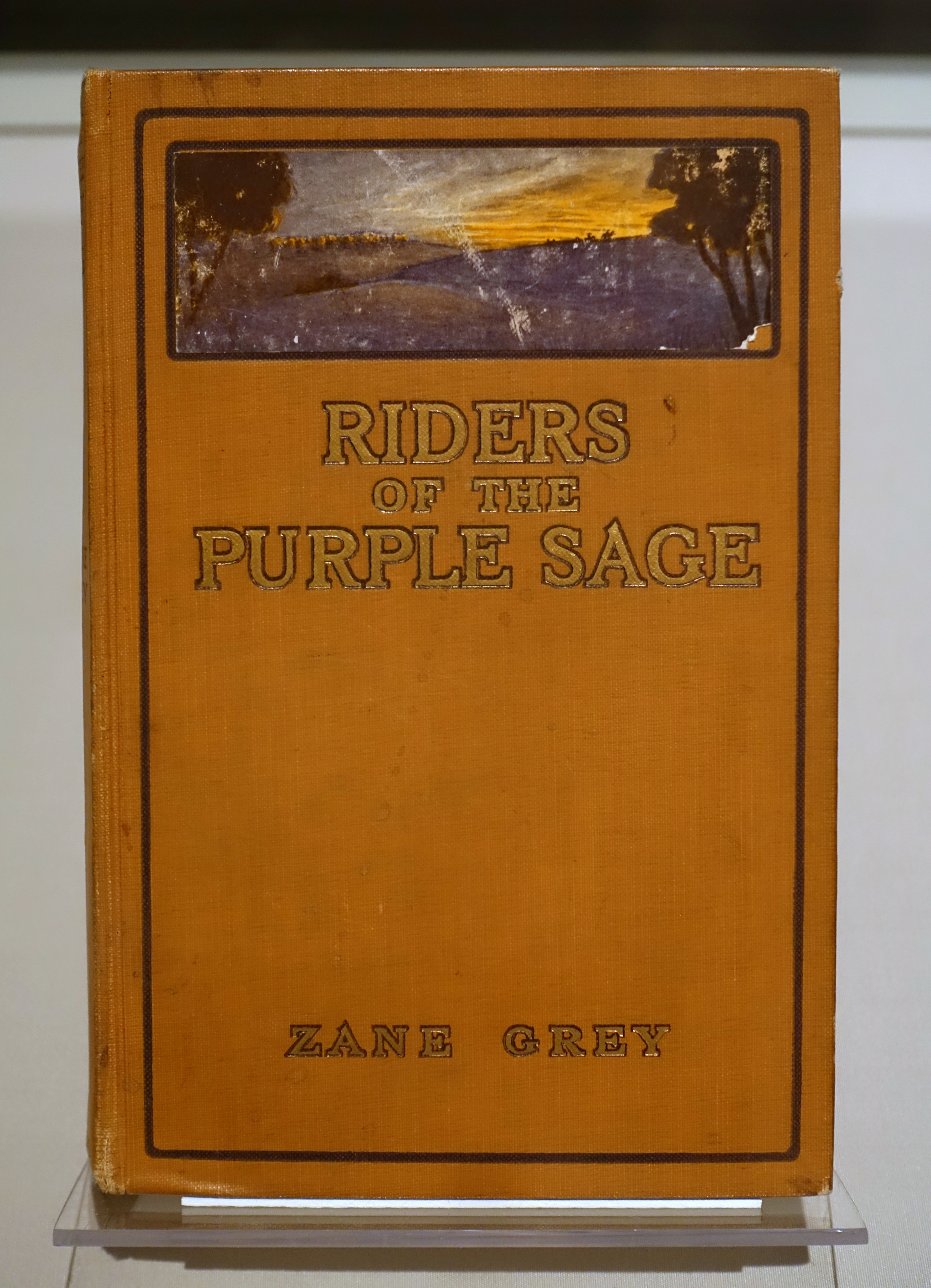 Exhibit in the Harry Ransom Center - University of Texas at Austin, Austin, Texas, USA. This work is old enough so that it is in the public domain.